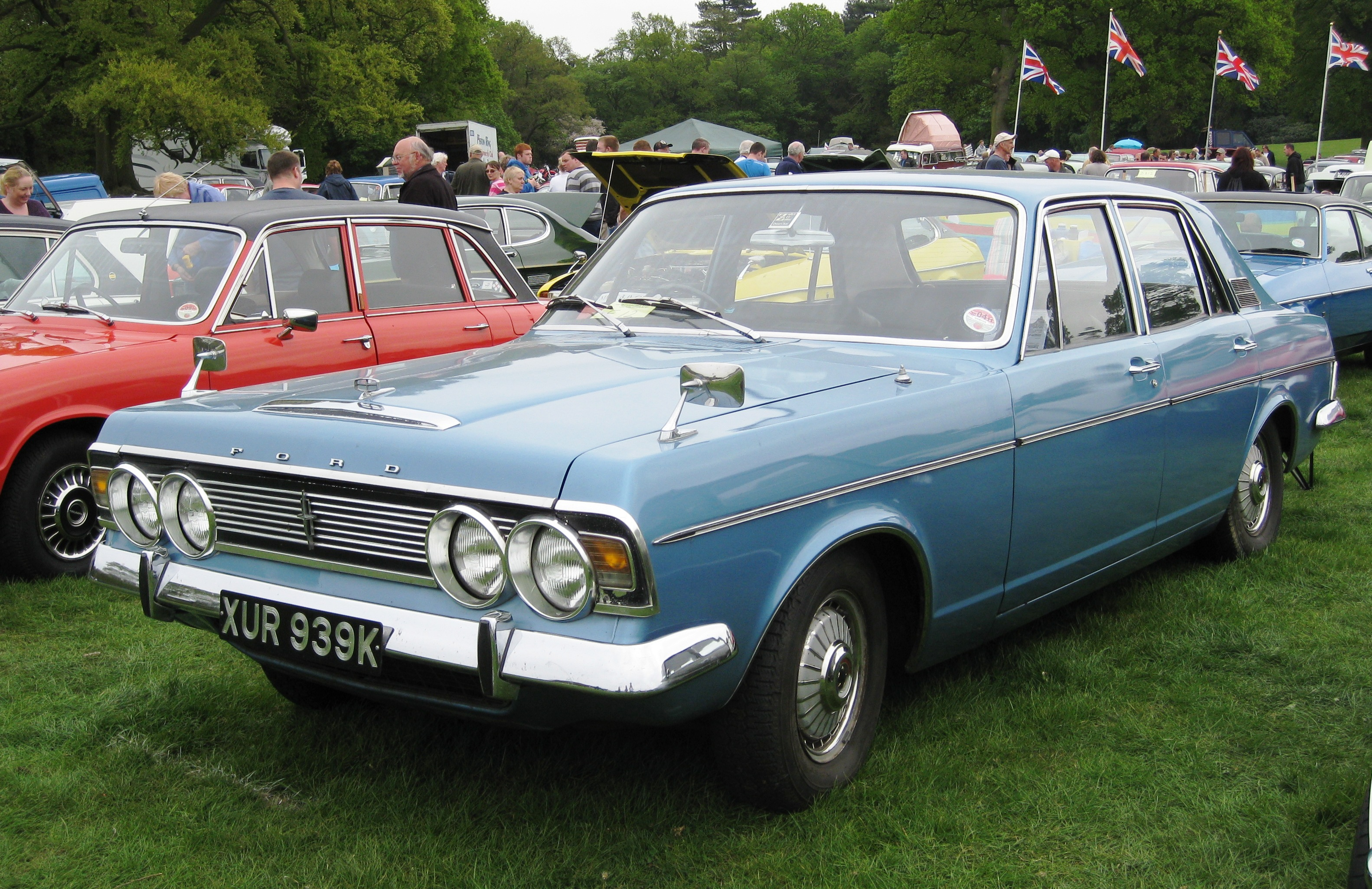 Ford Zodiac Mk IV